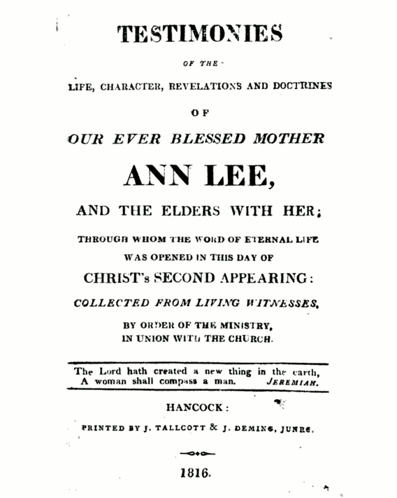 Title of a very first book about Ann Lee Testimonies of the Life, Character, Revelations and Doctrines of Our Ever Blessed, and the Elders with Her published by Shakers at 1816.